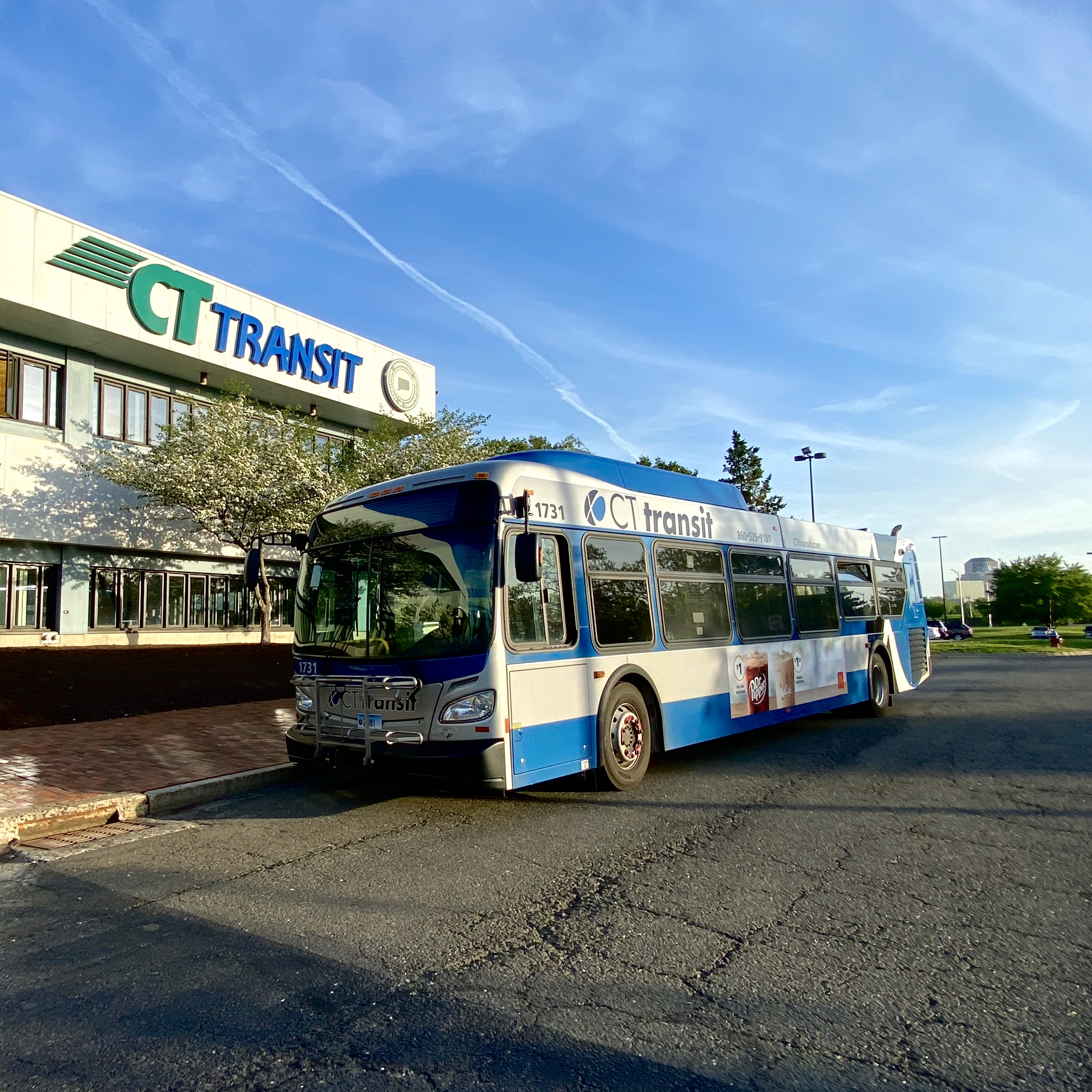 A CTtransit bus at the garage in Hartford.